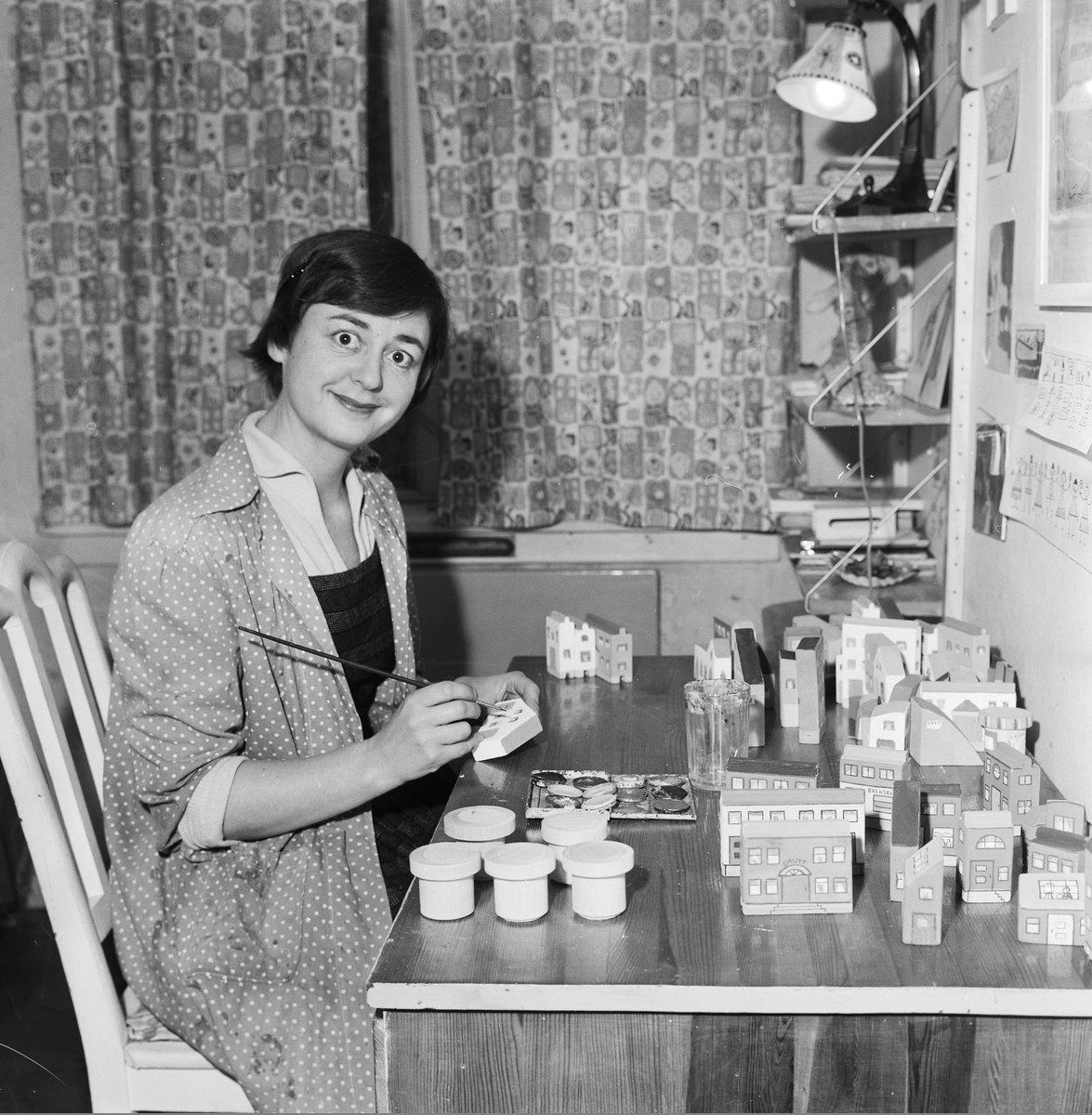 The Norwegian actor, designer, author ... Turid Balke at work with her popular wooden toys "Balkeby" inspired by her childhood hometown Kirkenes, Norway